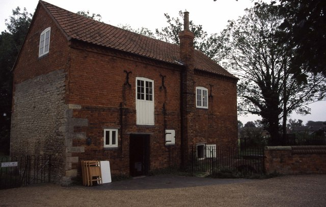 Cogglesford water Mill.